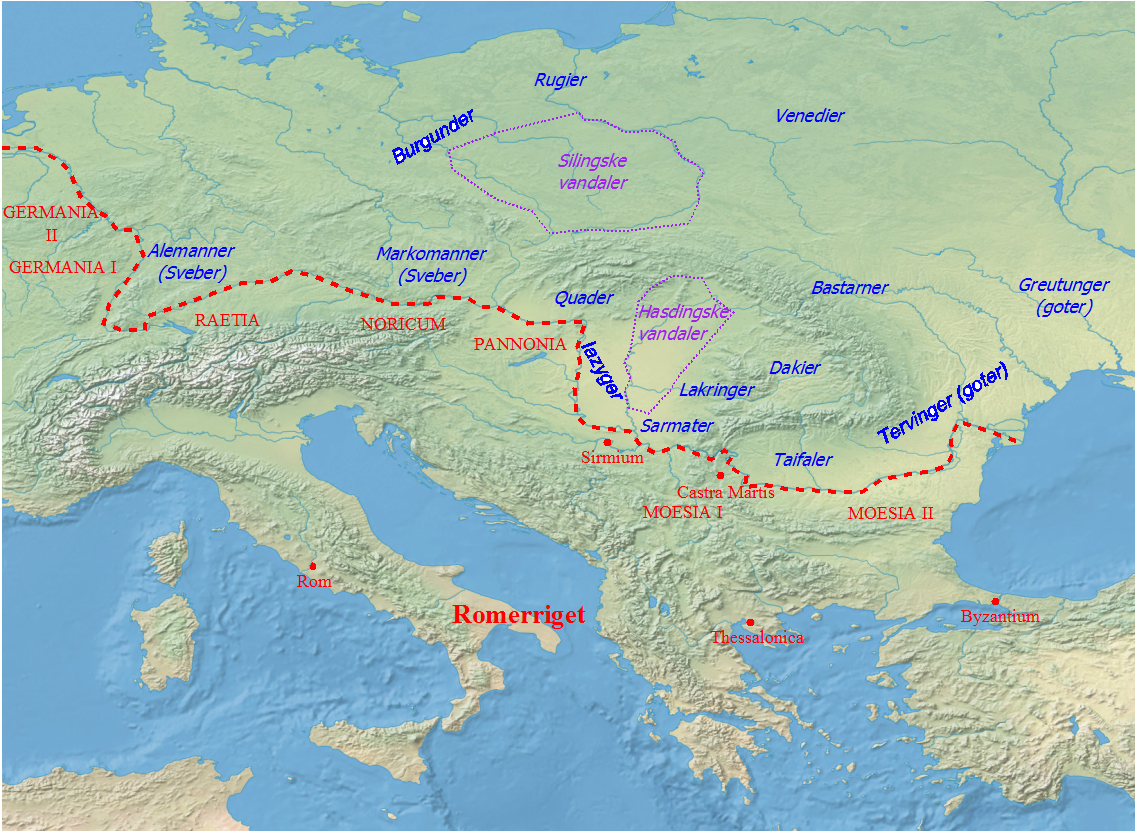 This is the Danish version of the file AD 0280 Vandals and their neighbours EN.png